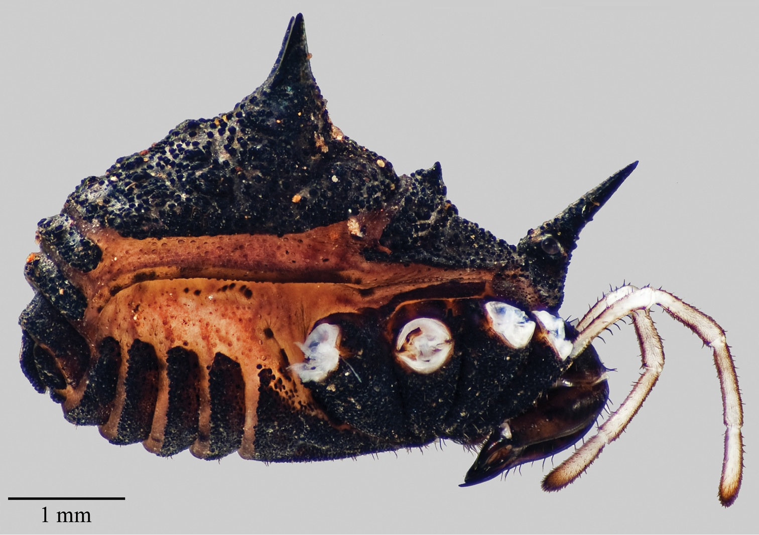 Acuclavella leonardi female, CHR 2492.